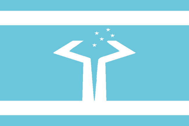 Flag of the administrative region of Ceilândia, in the Federal District, Brazil.